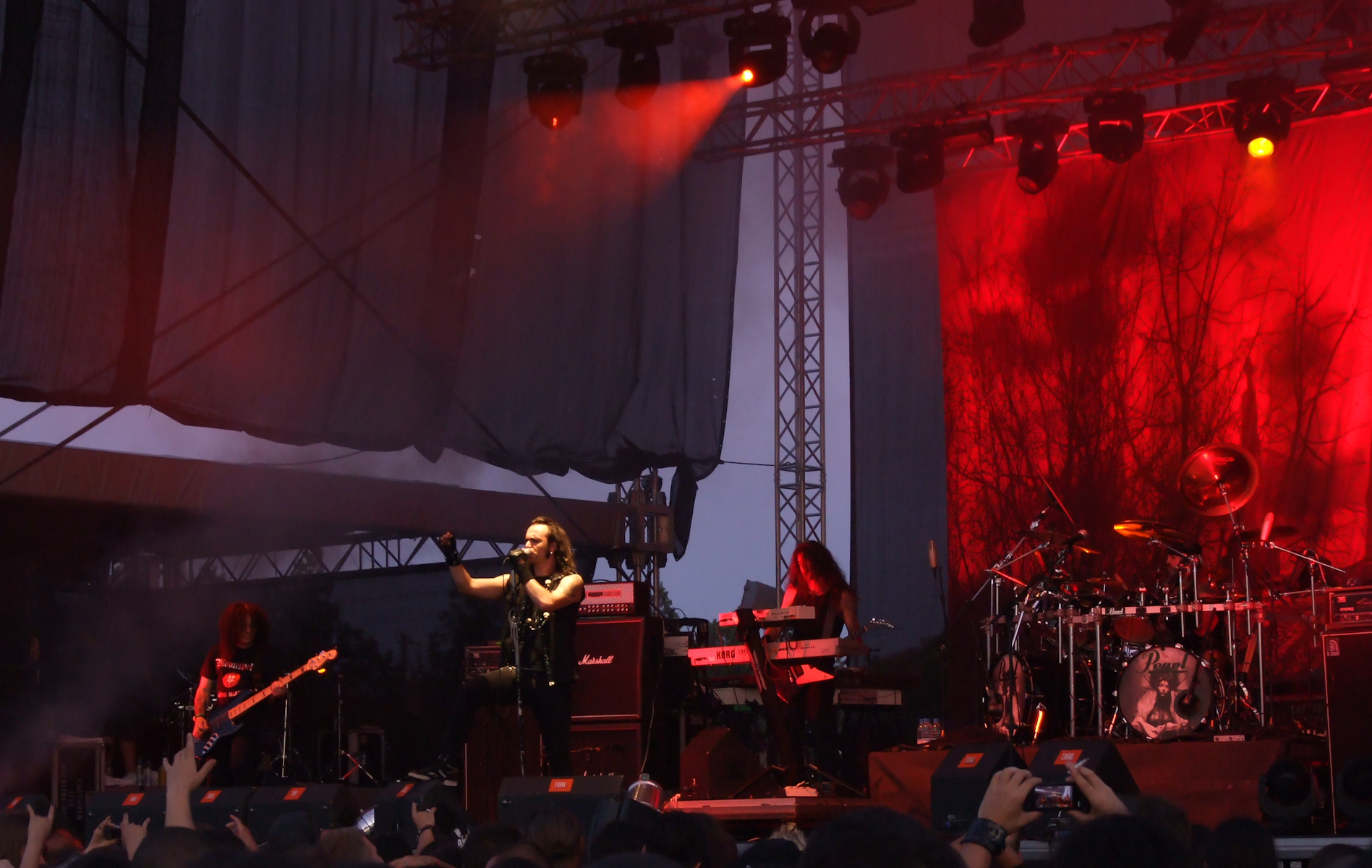 The Portuguese metal band Moonspell at Kavarna Rock Fest 2011, Bulgaria.